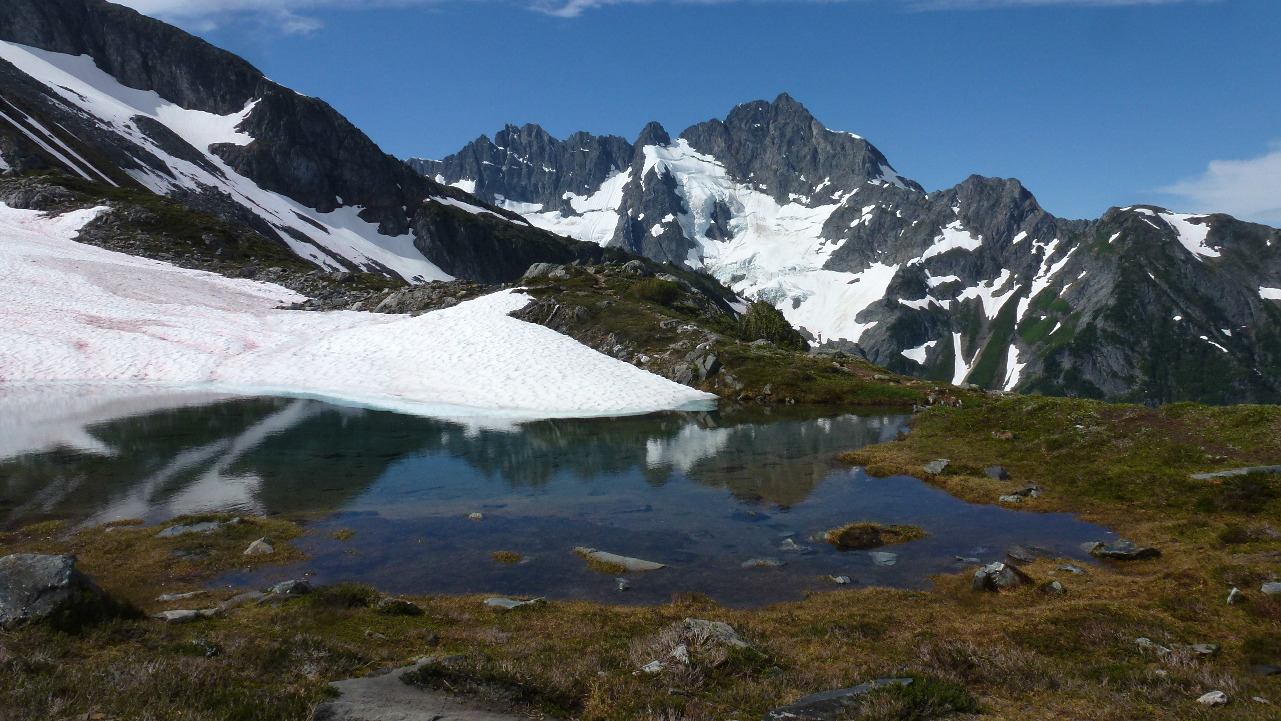 Kool-Aid Lake in the North Cascades of Washington. Mount Formidable can be seen in the background